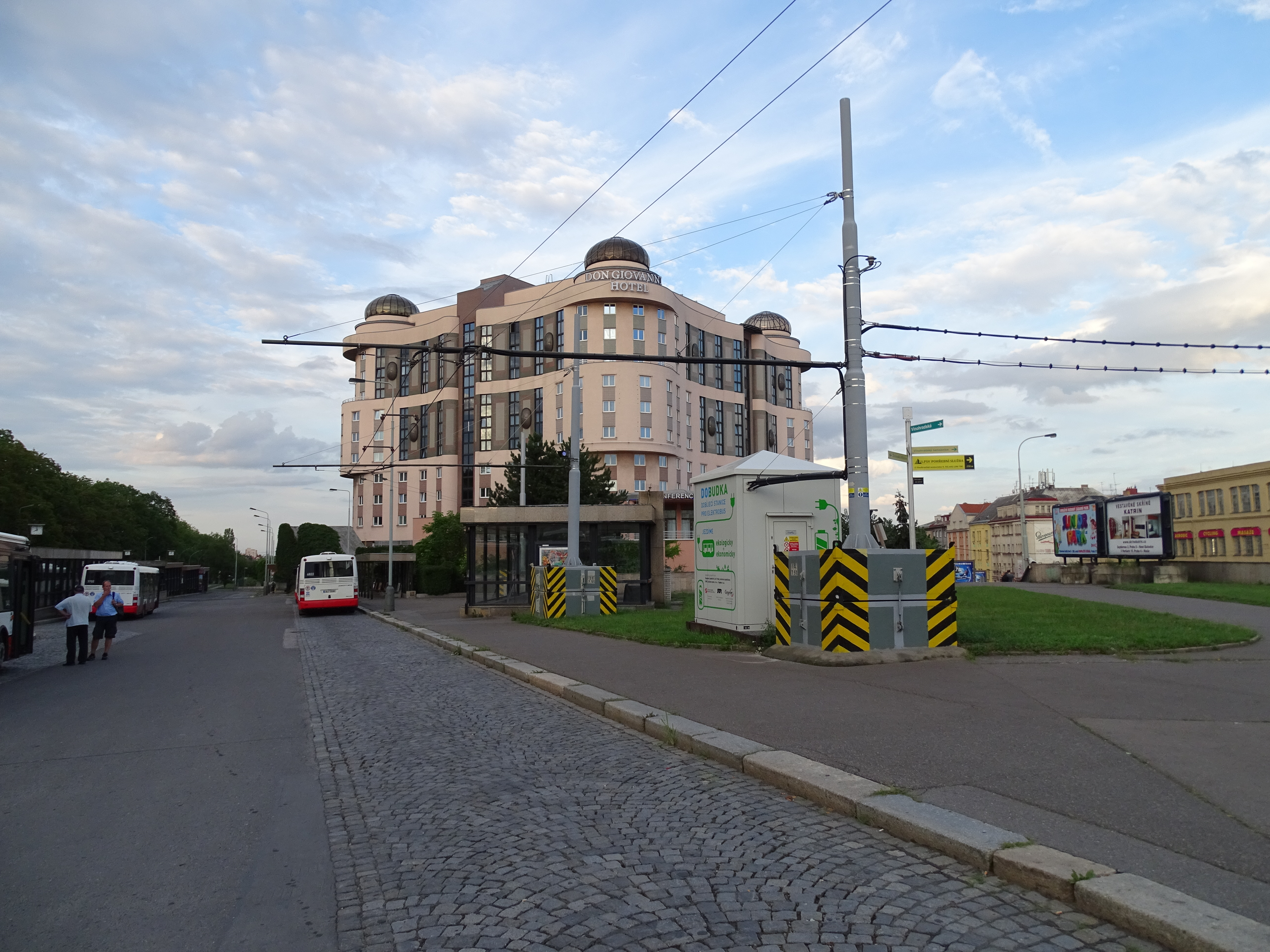 Prague-Žižkov, Czech Republic. Izraelská street, bus terminal Želivského. A charging station for electric buses.